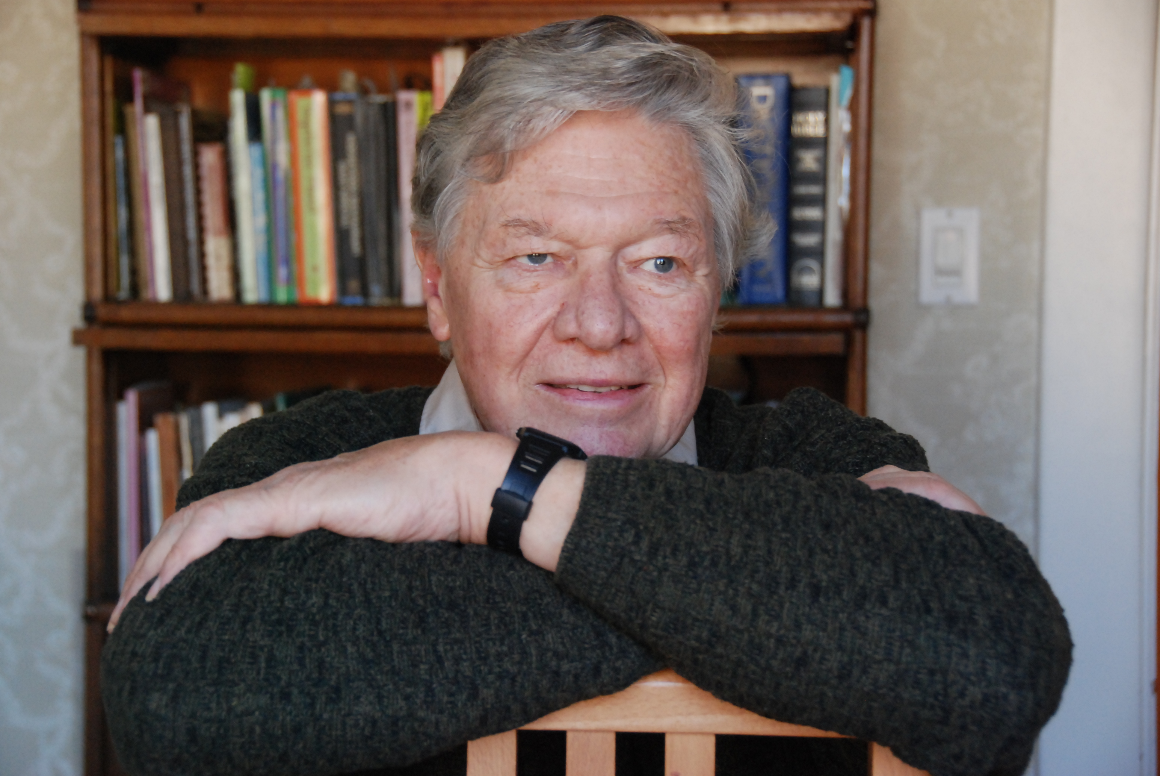 Photo of Peter Seidel, environmentalist